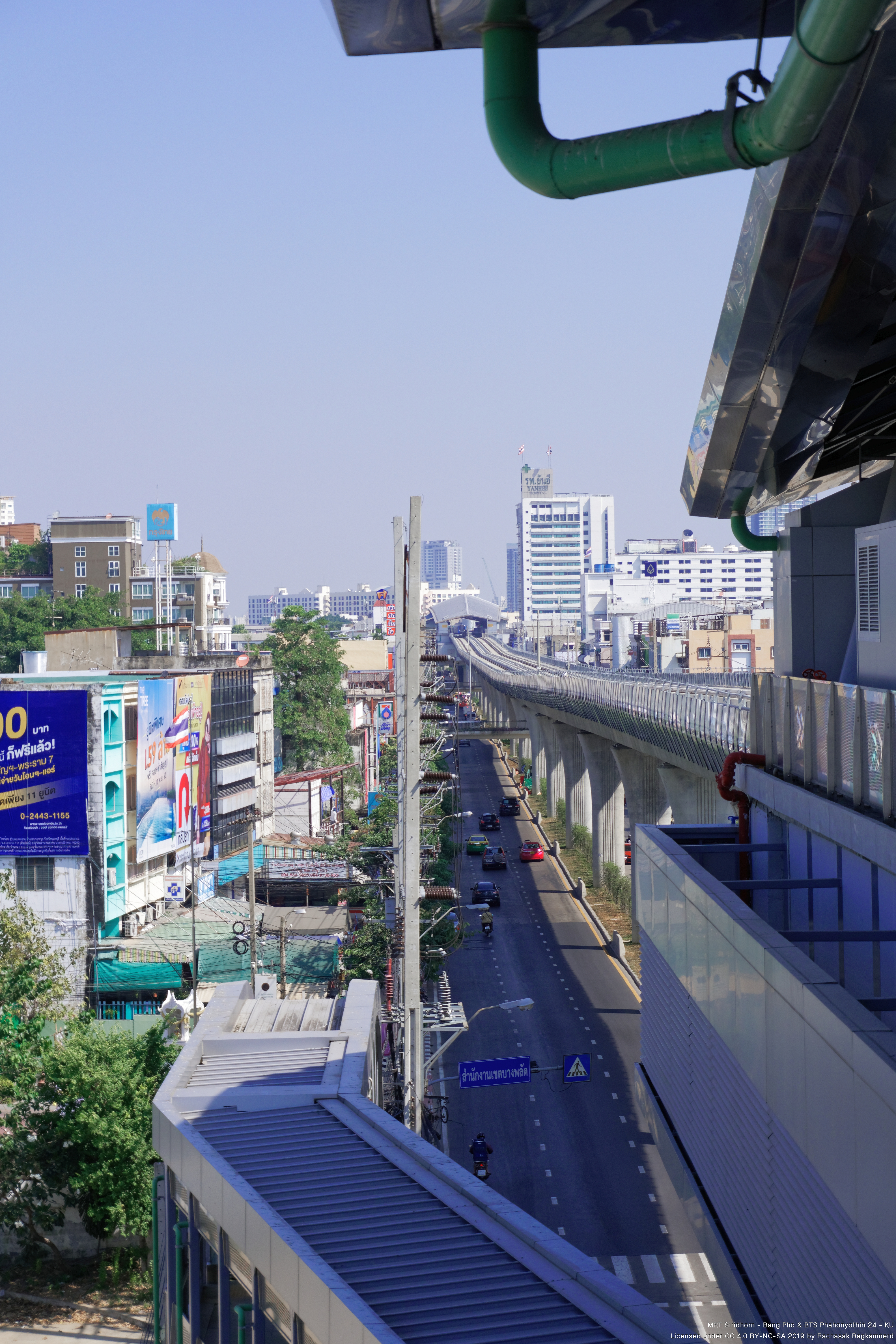 MRT Bang Plad - Rail toward Bang O station